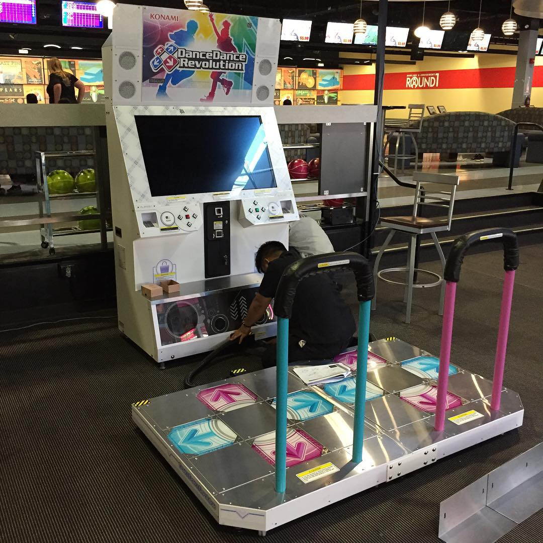 White cabinet version of the Dance Dance Revolution arcade game.